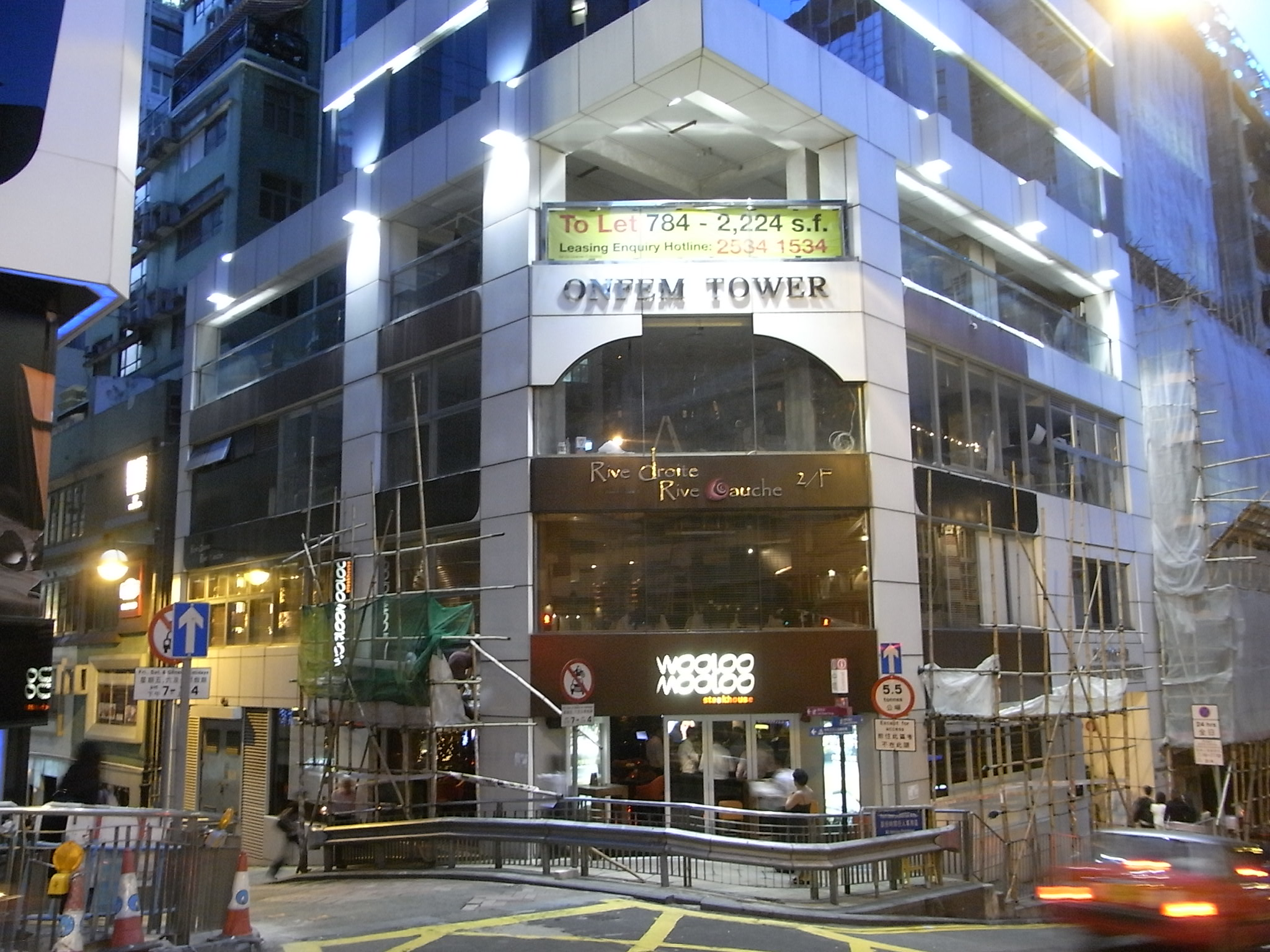 中環 東方有色大廈